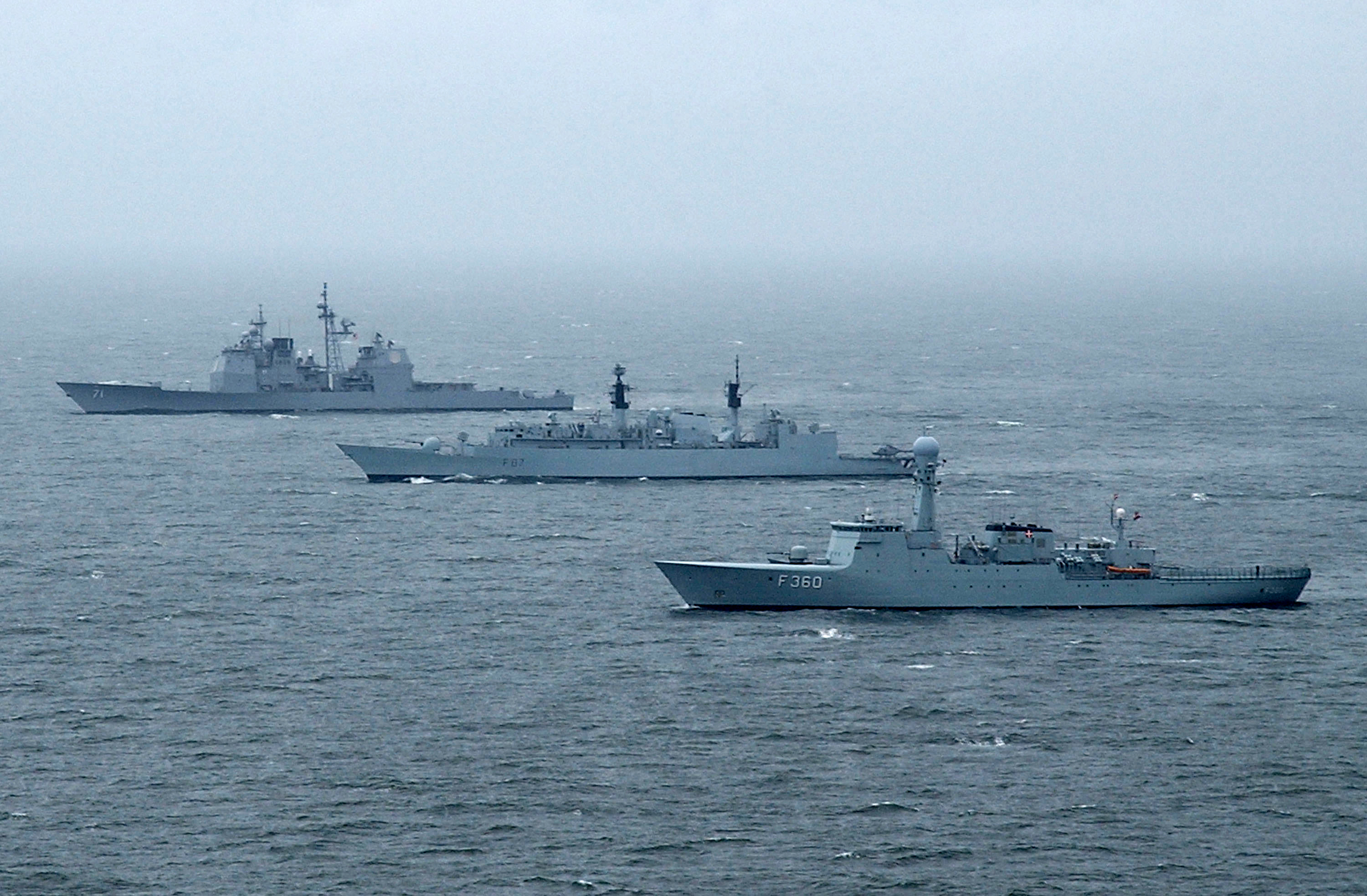 020611-N-0872M-501 The Baltic Sea (Jun. 11, 2002)-- The Danish HDMS Hvidbjoernen (F 360), British HMS Chatam (F 87), and U.S. guided missile cruiser USS Cape St. George (CG 71) cruise in formation during the joint combined exercise BALTOPS 2002. The United States and 11 other nations are participating in this year's exercise. BALTOPS 2002 is intended to improve interoperability between allies and Partnership for Peace countries by conducting a peace support operation at sea including exercises in gunnery, replenishment-at-sea, undersea warfare, radar tracking, mine countermeasures, seamanship, search and rescue, maritime interdiction operations, and scenarios dealing with potentially real world crises. U.S. Navy photo by Photographer's Mate 1st Class Martin E. Maddock. (RELEASED)